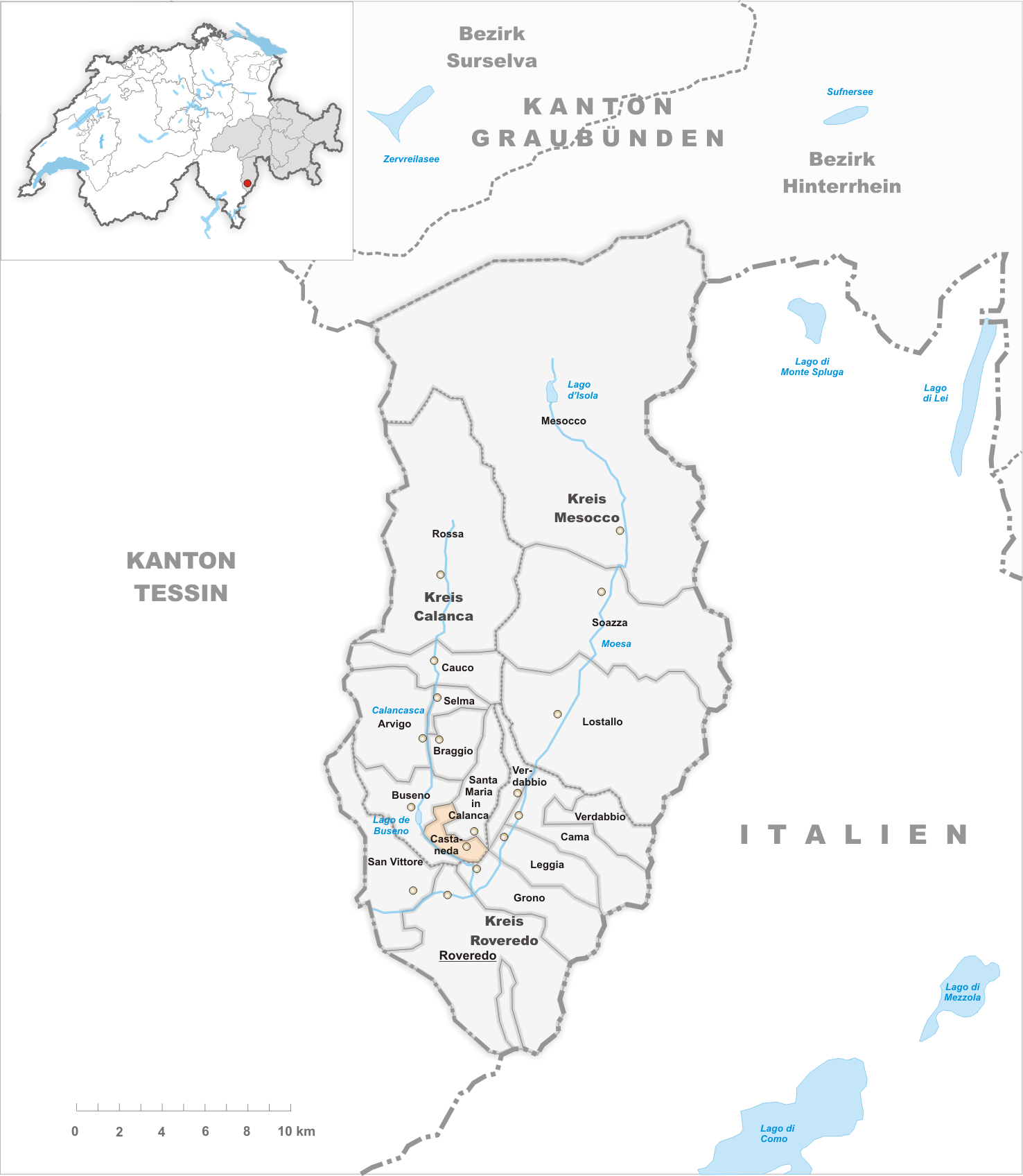 Municipality Castaneda